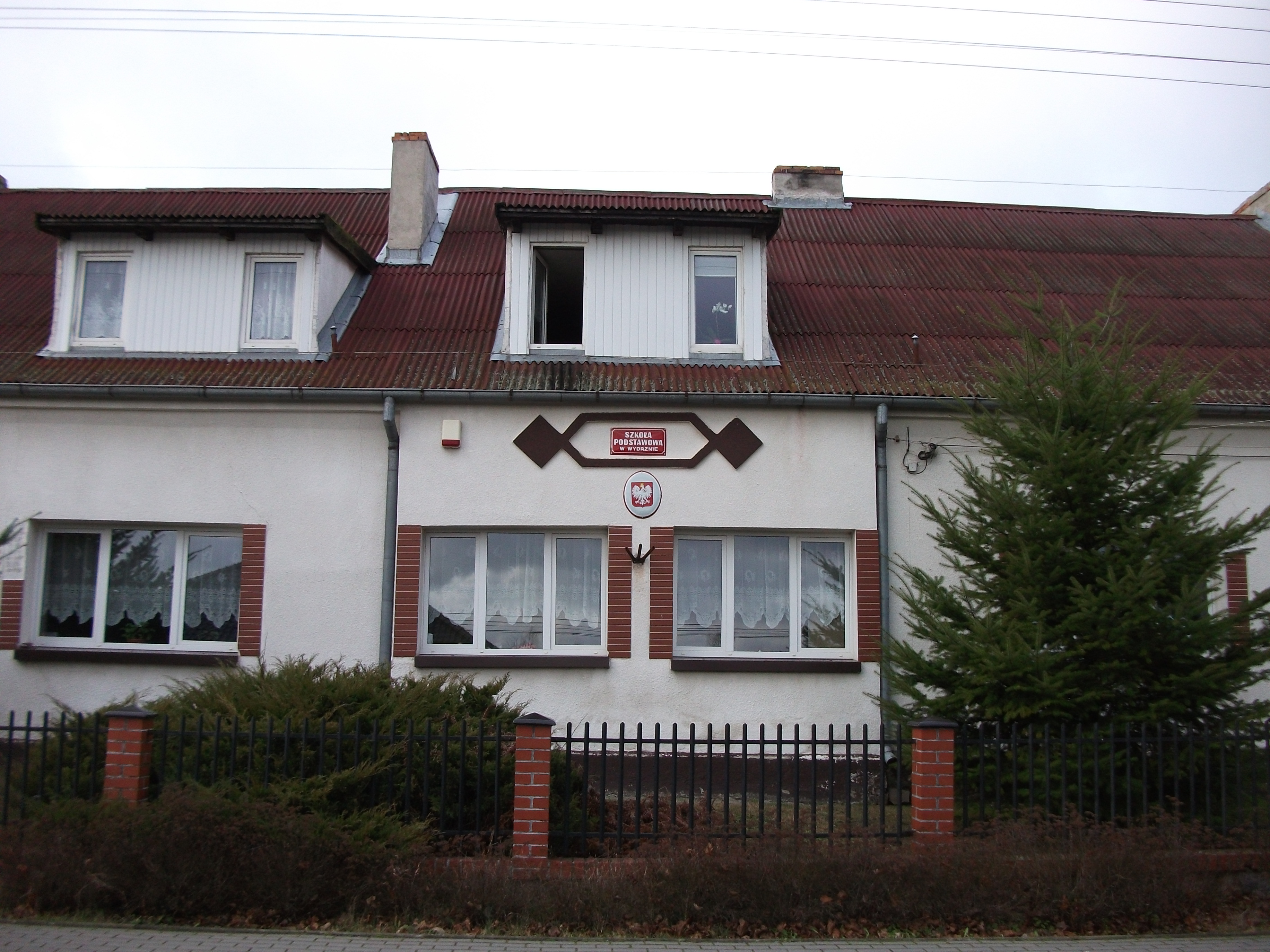 Primary school in Wydrzno